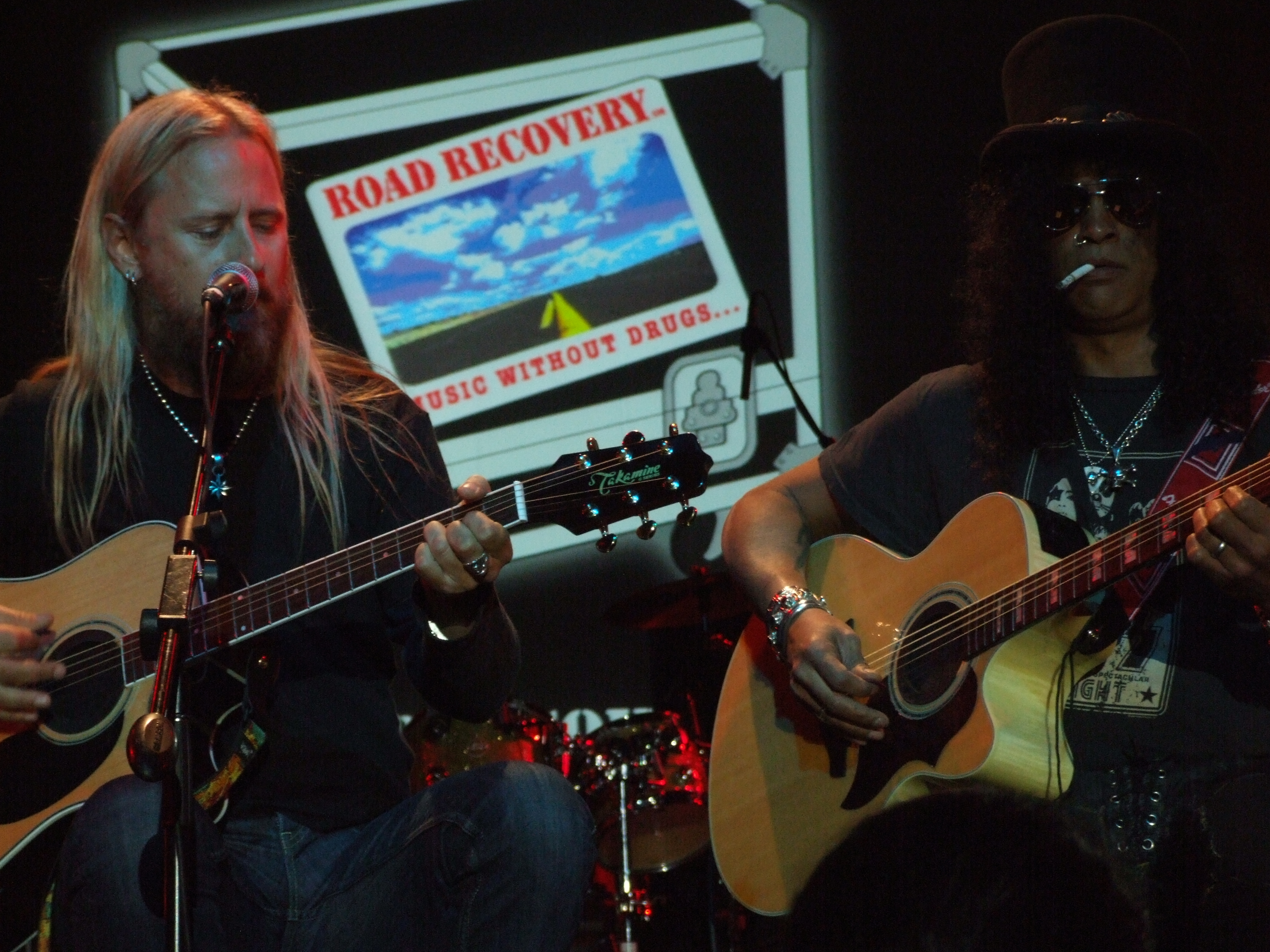 Jerry Cantrell and Slash playing an acoustic show on The Nightwatchman's Justice tour in the Nokia Theater, New York April 17 2008. from Flickr album "Justice Tour: Road Recovery, New York, New York" by Scott Penner from Ottawa, Canada